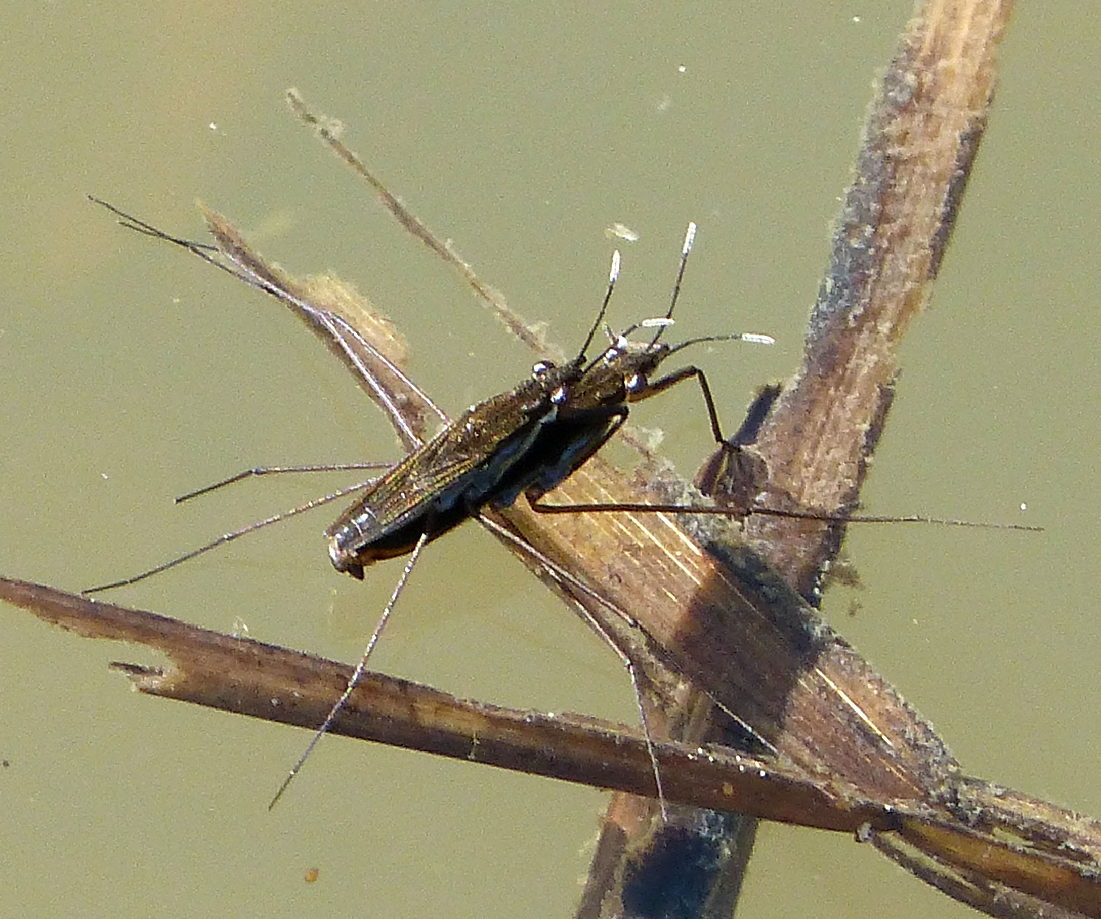 WWT Grafton Wood, Worcs. SO973563